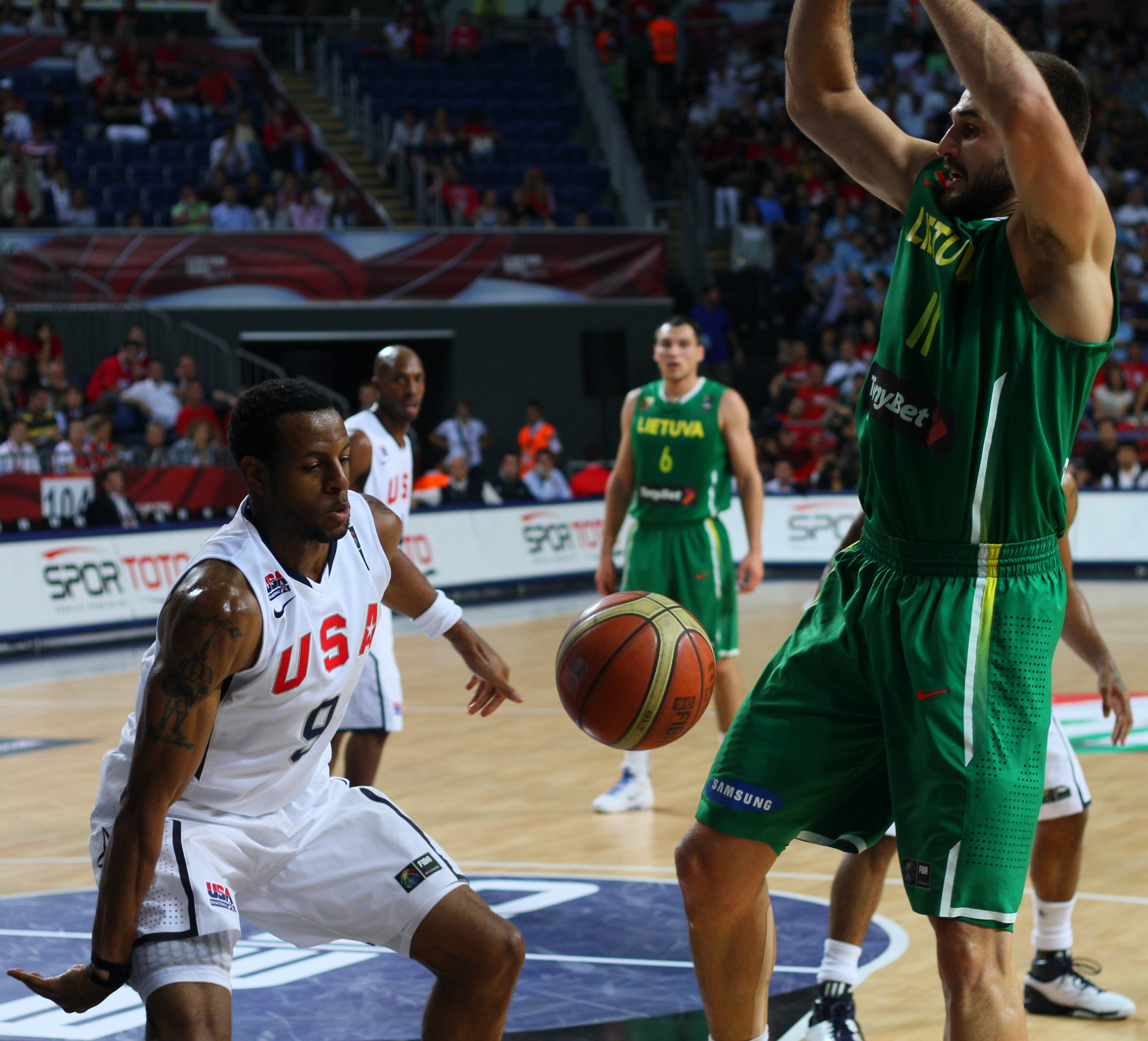 Linas Kleiza after jumpshot.